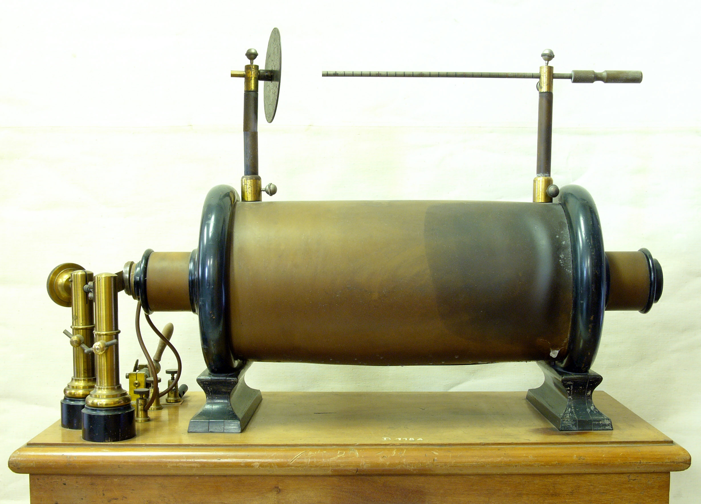 Induction coil (also called "spark coil" or "Rühmkorff coil"), used in science education probably around 1900, on display in the Schulhistorische Sammlung (School Historical Museum), Bremerhaven, Germany. It generates high voltage from low voltage direct current (D). Inside the cylinder is the primary winding, consisting of relatively few turns of thick wire, wrapped around an iron core. It can be seen sticking out of both ends of the coil. Around this is wound the secondary winding, consisting of many turns of fine wire. At the left end of the core is a vibrating contact called an "interrupter", which repeatedly breaks the current in the primary circuit to provide the flux changes necessary for induction. When operating, the high voltage from the secondary is applied to the spark gap at the top, creating a stream of sparks